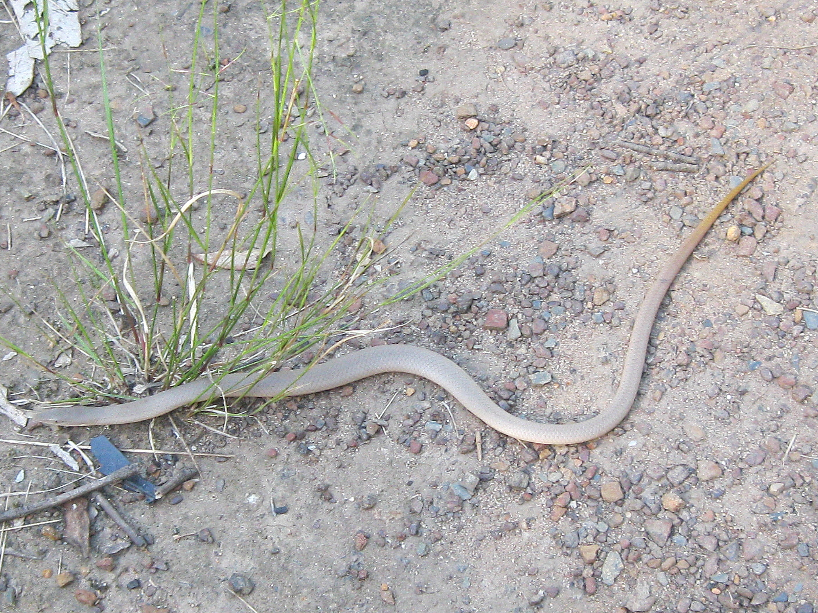 About 40cm long I nearly trod on it.